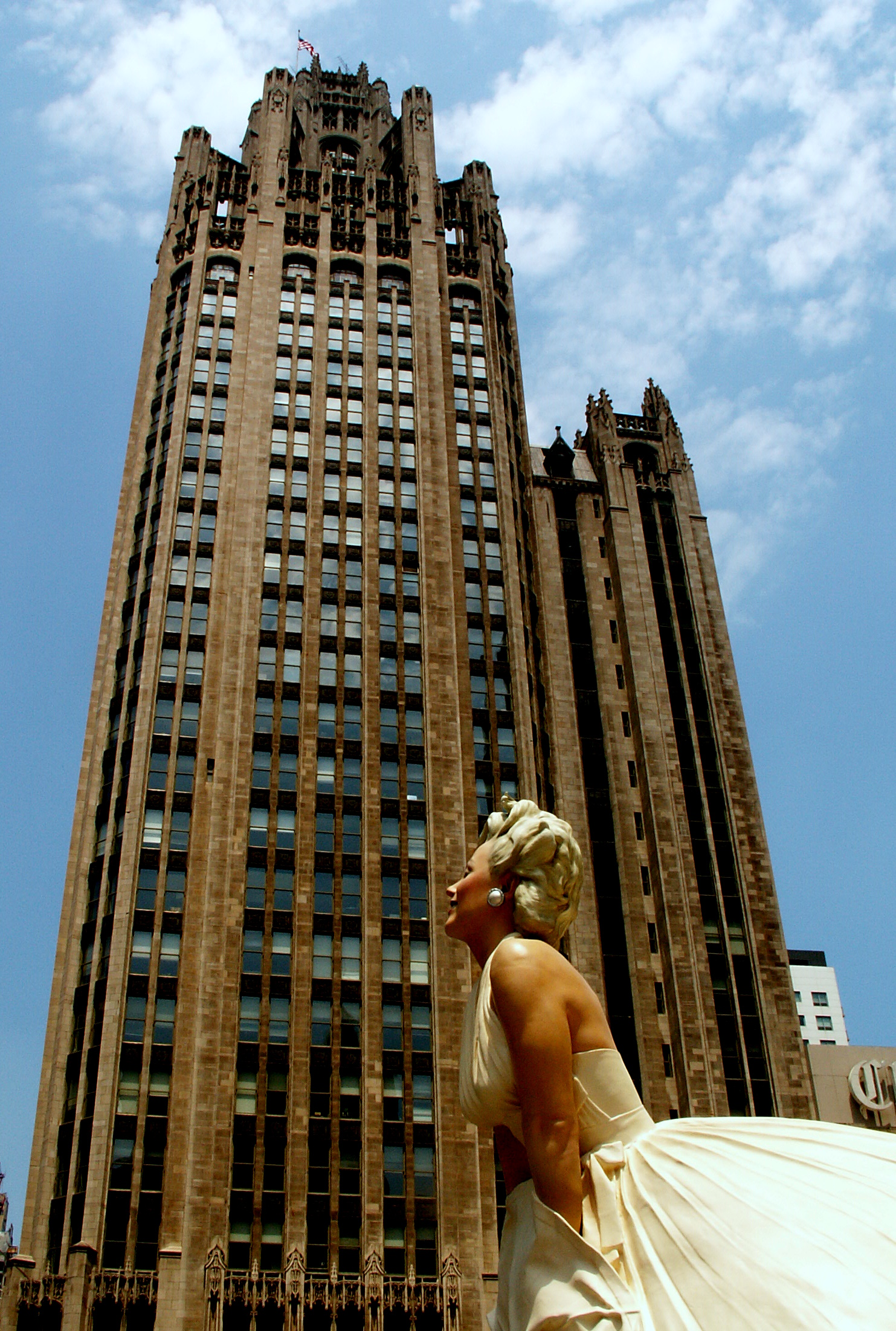 John Seward Johnson II, Forever Marilyn